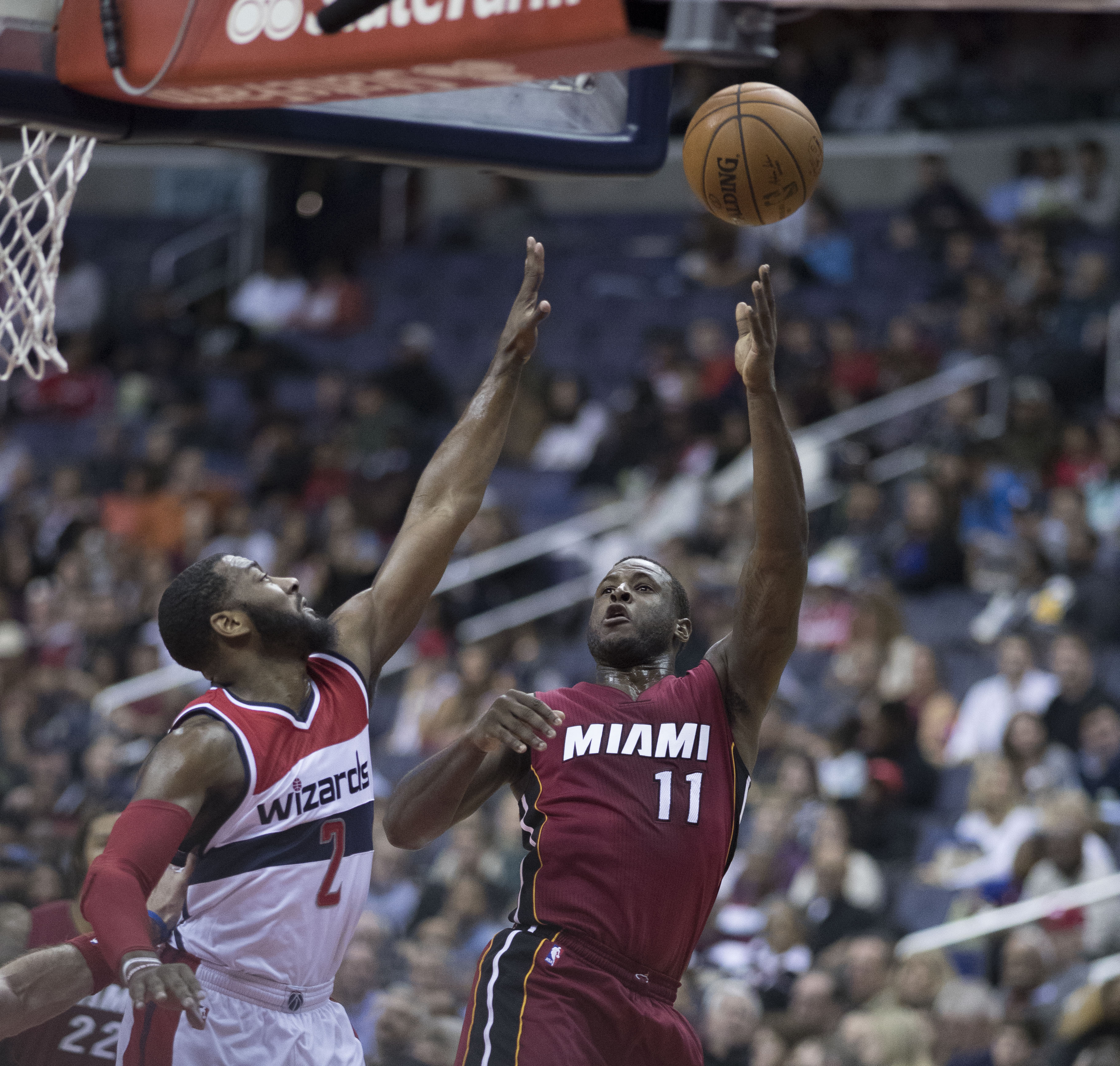 Dion Waiters attacking the basket during a Miami Heat game versus the Washington Wizards in 2016.